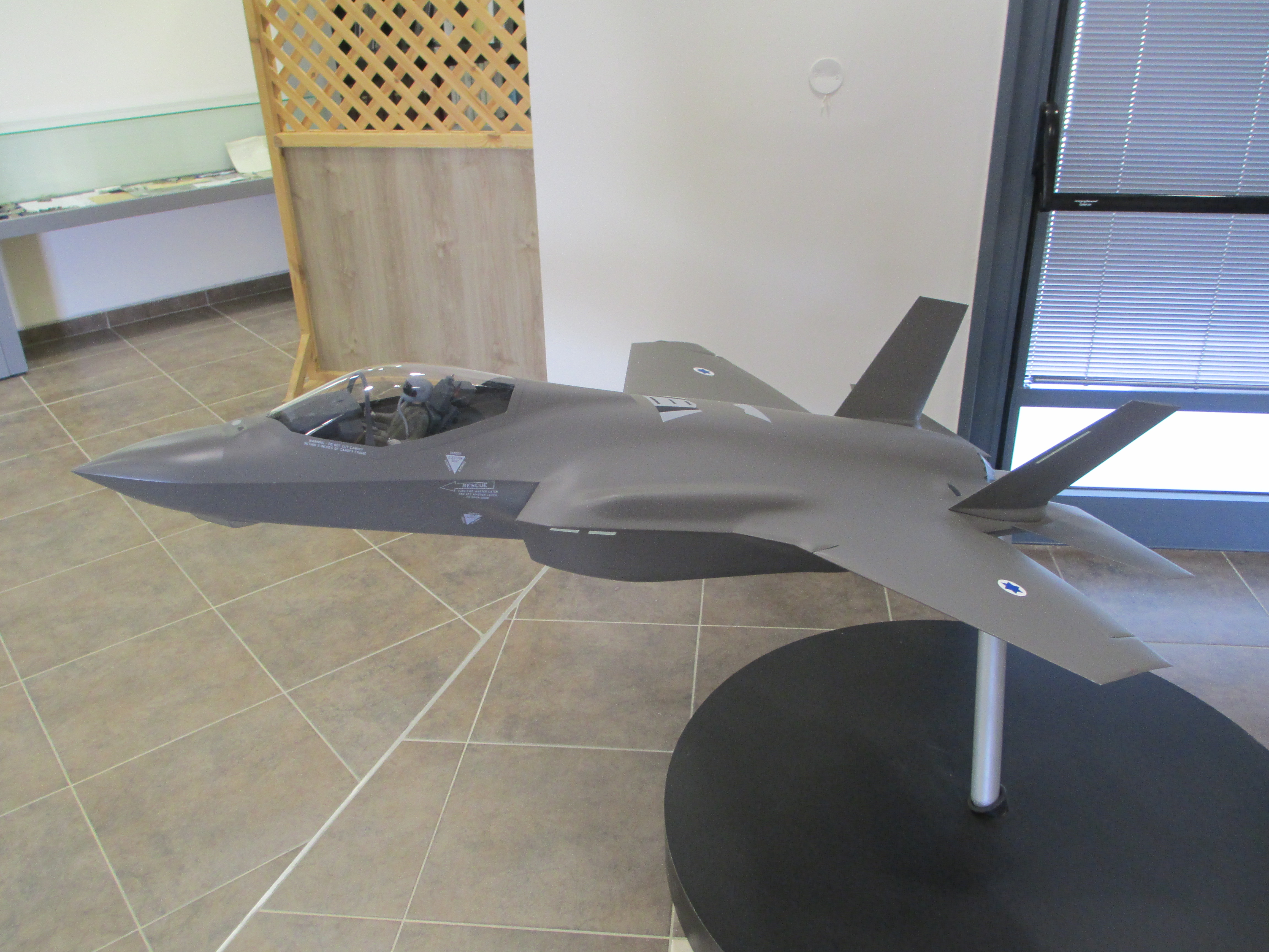 Nevatim Airbase